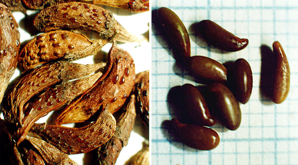 Amorpha fruticosa fruits and seeds.